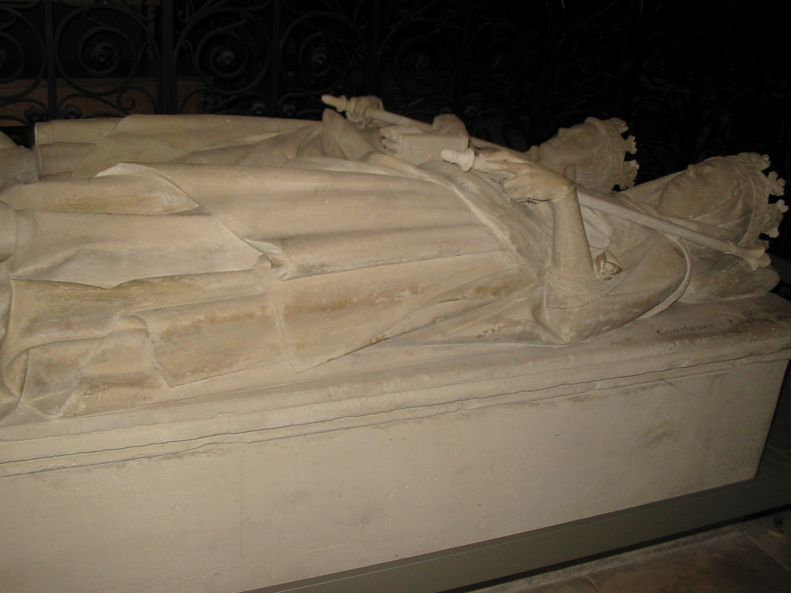 Constance of Castile, wife of Louis VII of France, Basilica St Denis.